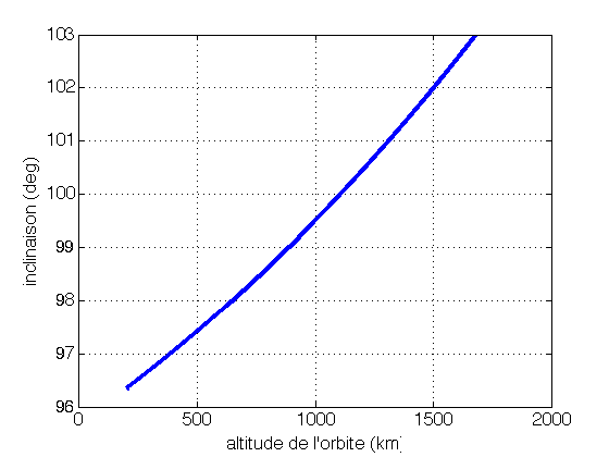 Sun-synchronous orbit inclinaison for various altitudes.